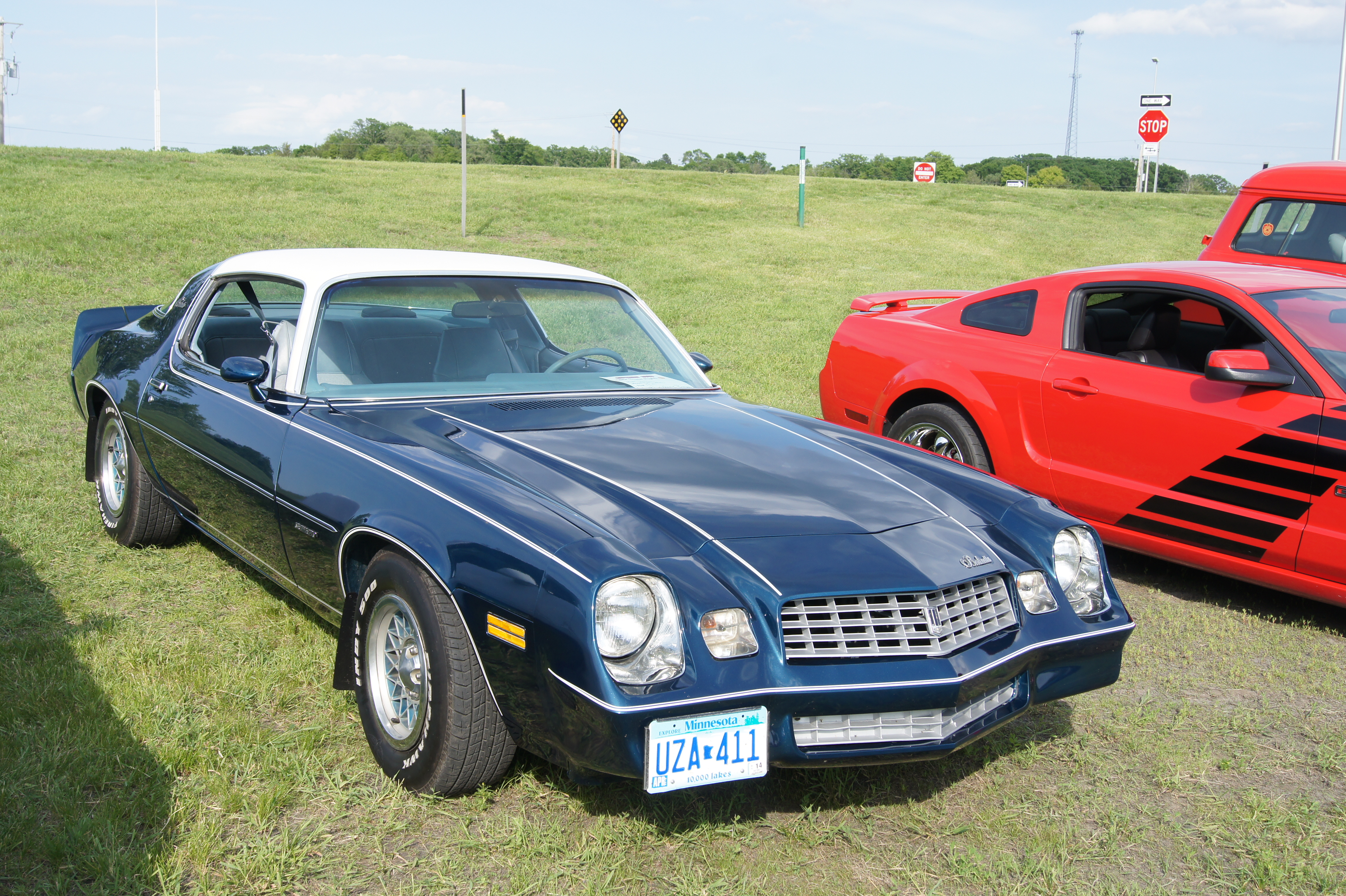 A&W Country Stop Cruise Night June 19, 2013 More Car Pictures